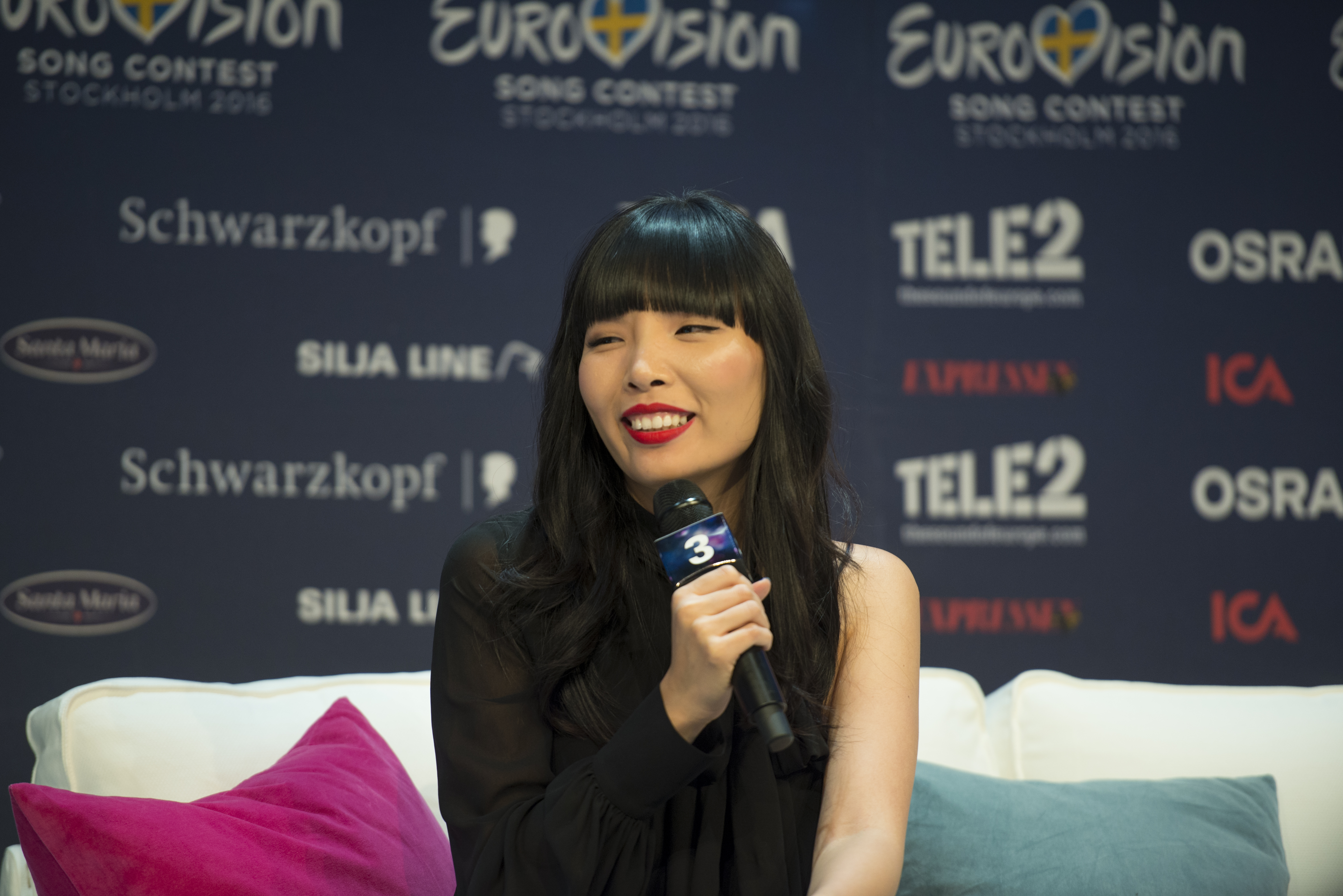 Dami Im at a Meet & Greet during the Eurovision Song Contest 2016 in Stockholm. (Help translate this text)